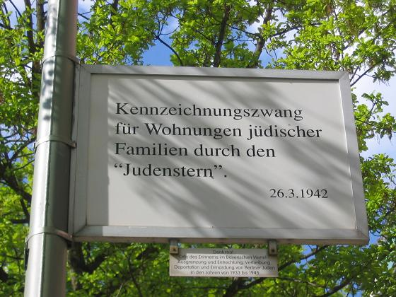 Board remembering persecution of Jews in Berlin